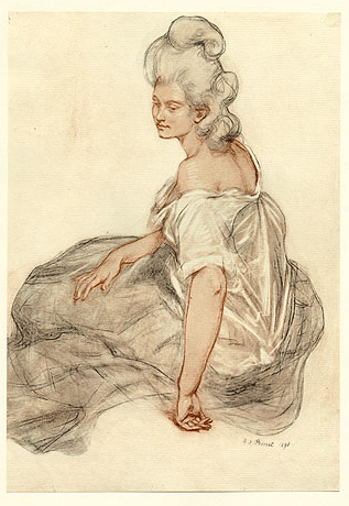 Manon by René-Xavier Prinet, lithographic print from L'Estampe moderne, vol. I, Paris, F. Champenois.